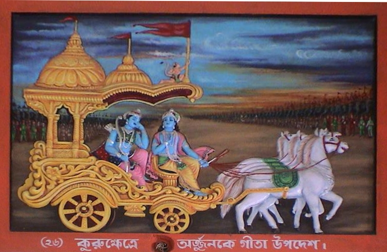 Lord Krishna instructing the Bhagavad Gita to Arjuna in Kurukshetra.